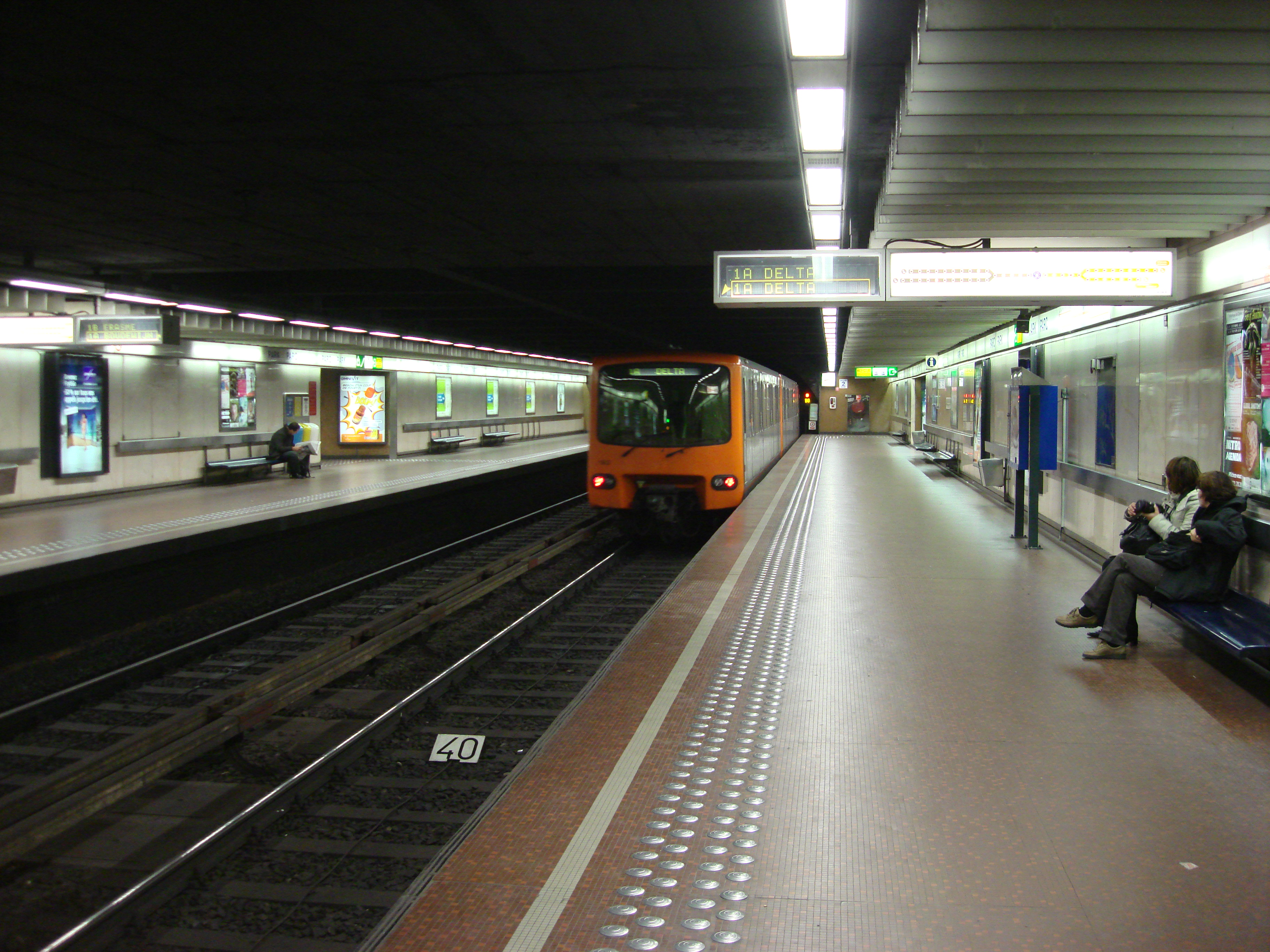 A 1A line Metro train leaving Brussels Park/Parc Metro station with a service to Delta